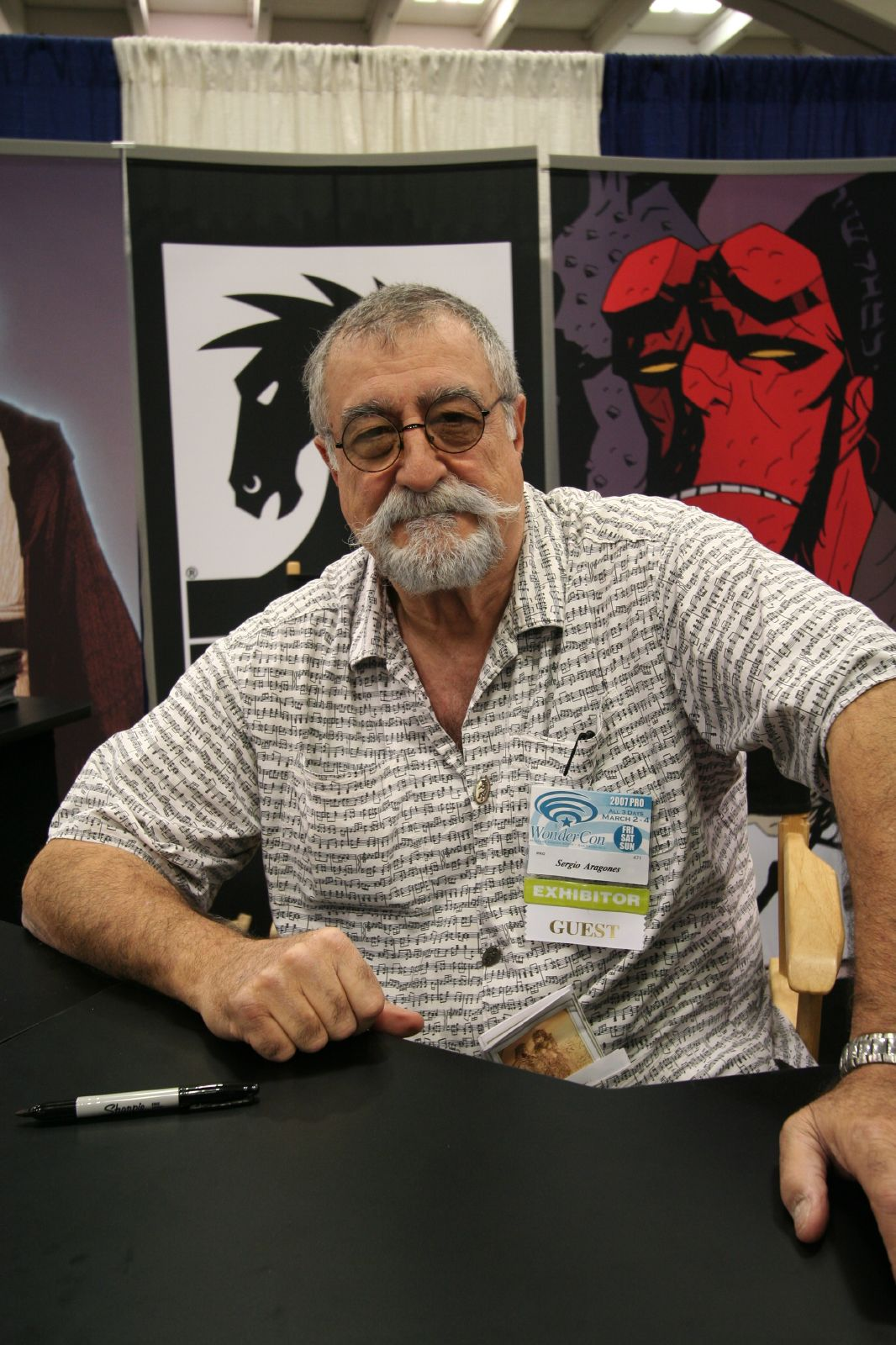 The legendary Sergio Aragones!!!